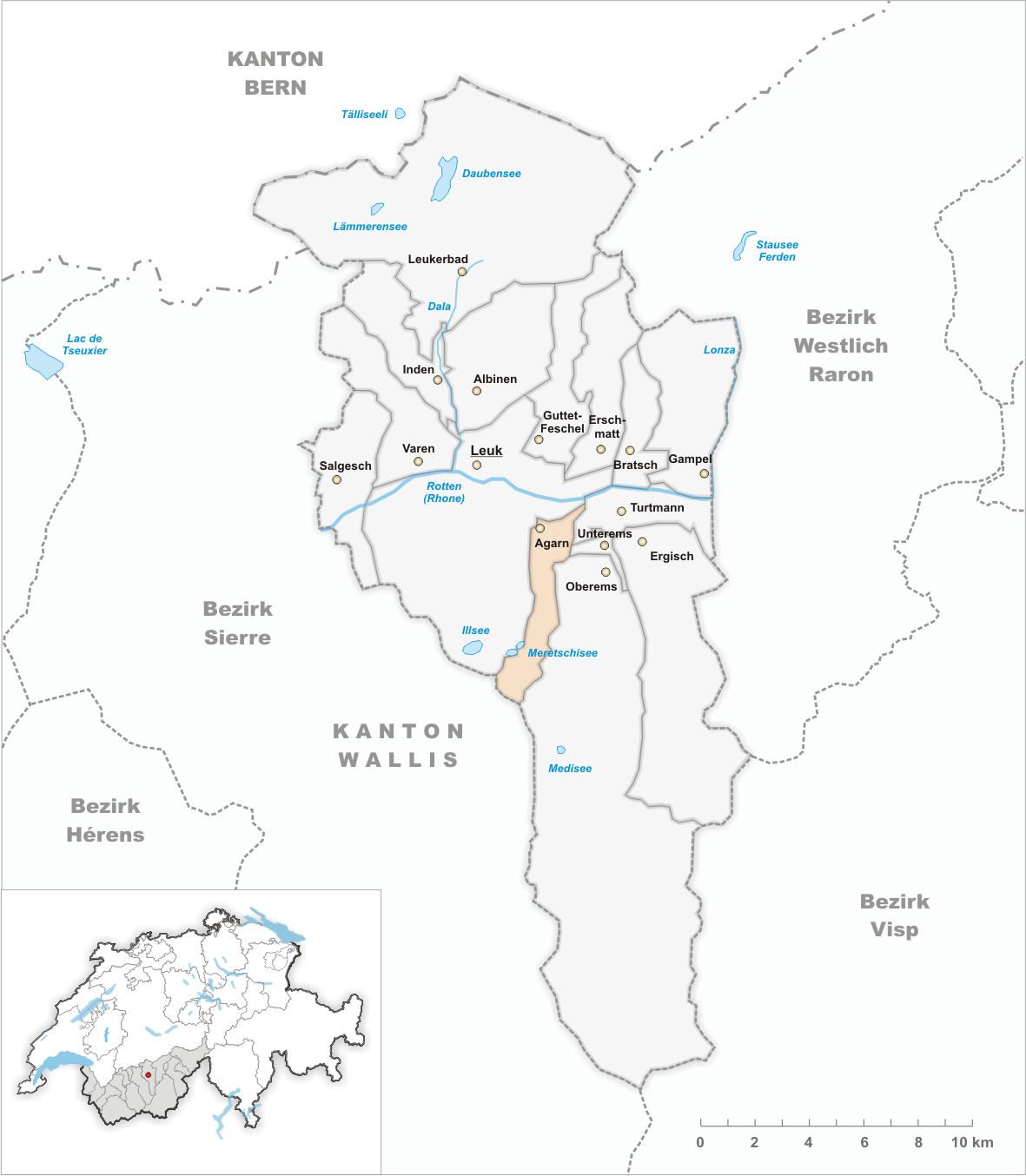 Municipality Agarn